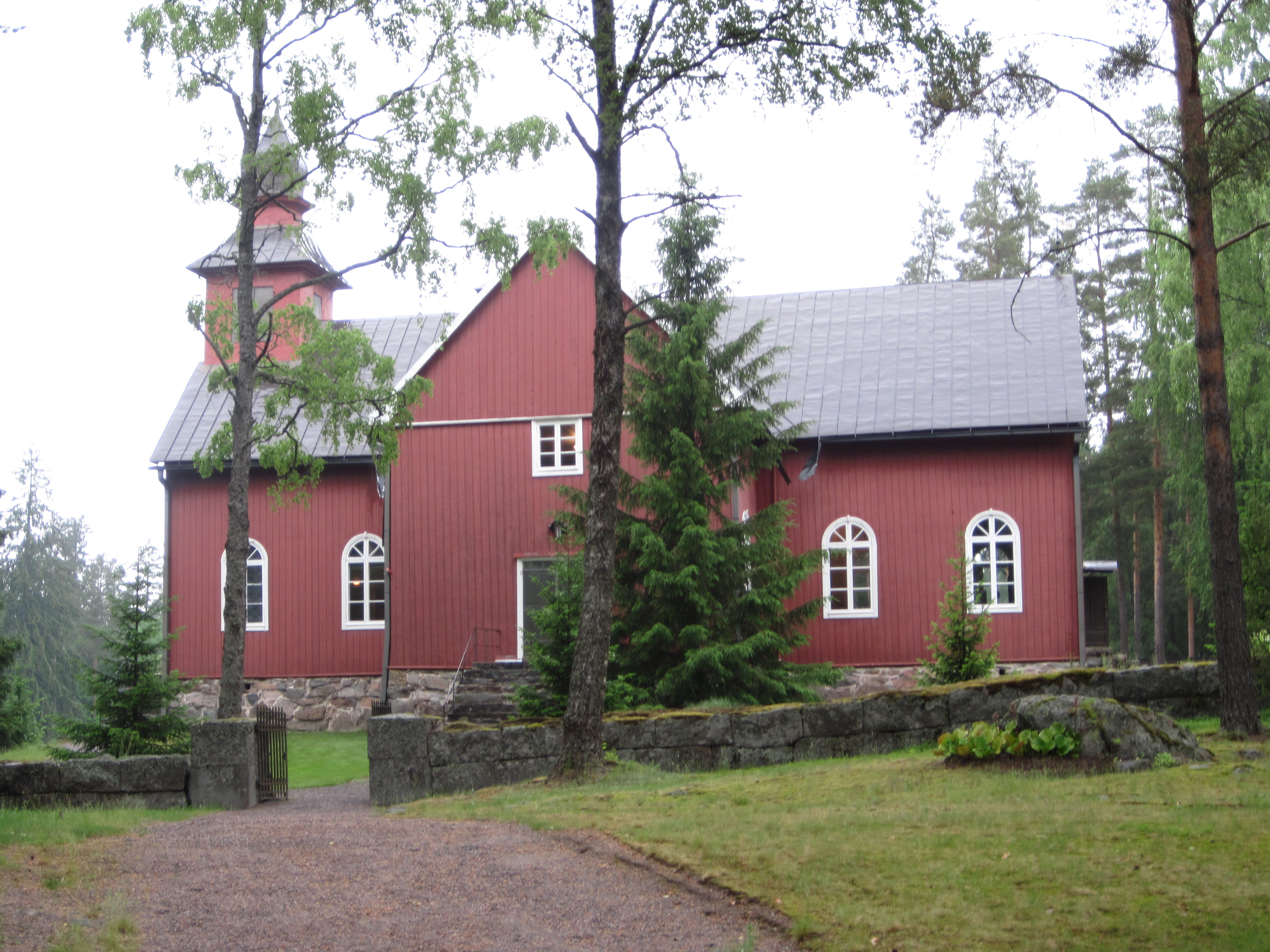 Church in Karinainen, Finland.